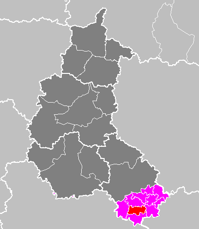 Maps of arrondissements and cantons of France: Arrondissement de Langres - Canton de Longeau-Percey.PNG